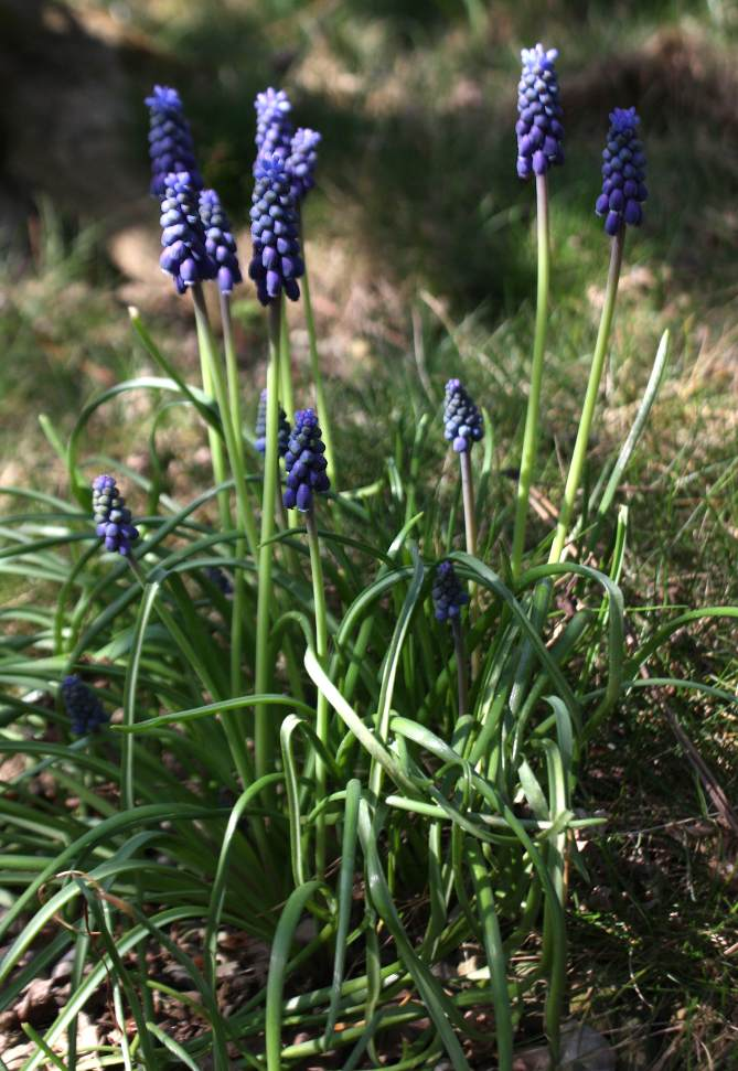 muscari, Brno, CZ Česky: Muscari armeniacum, modřenec, jaro Brno, CZ